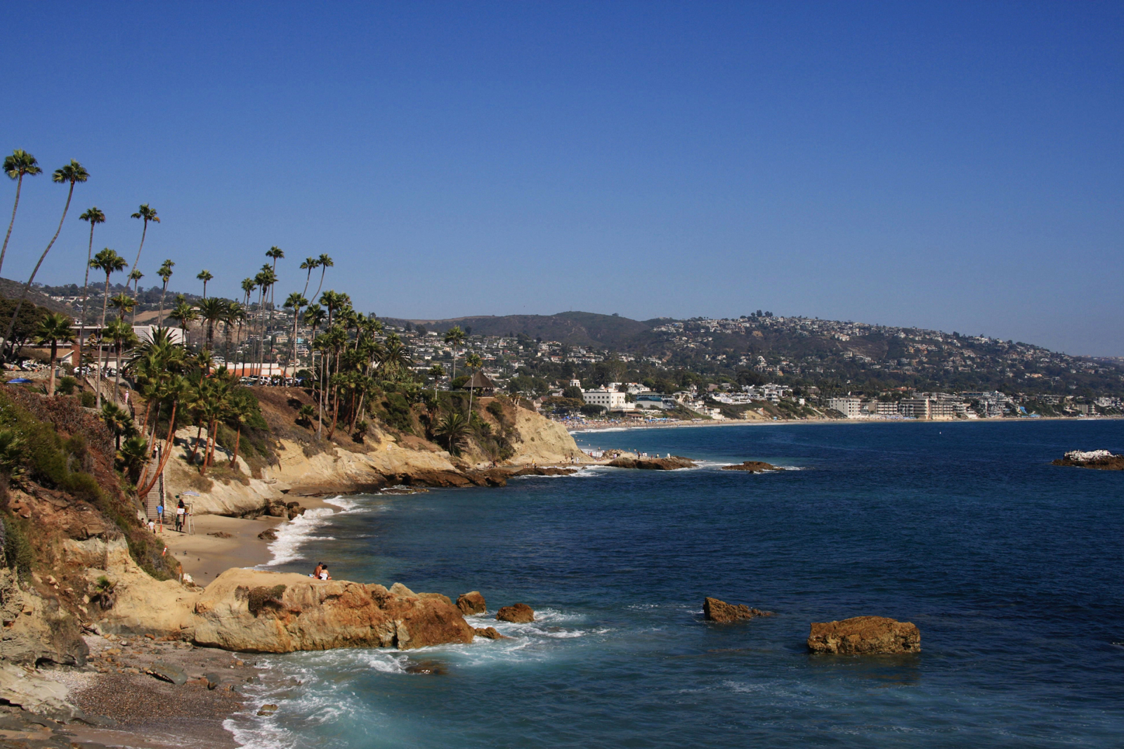 Overlooking Heisler Park in Laguna Beach, California.